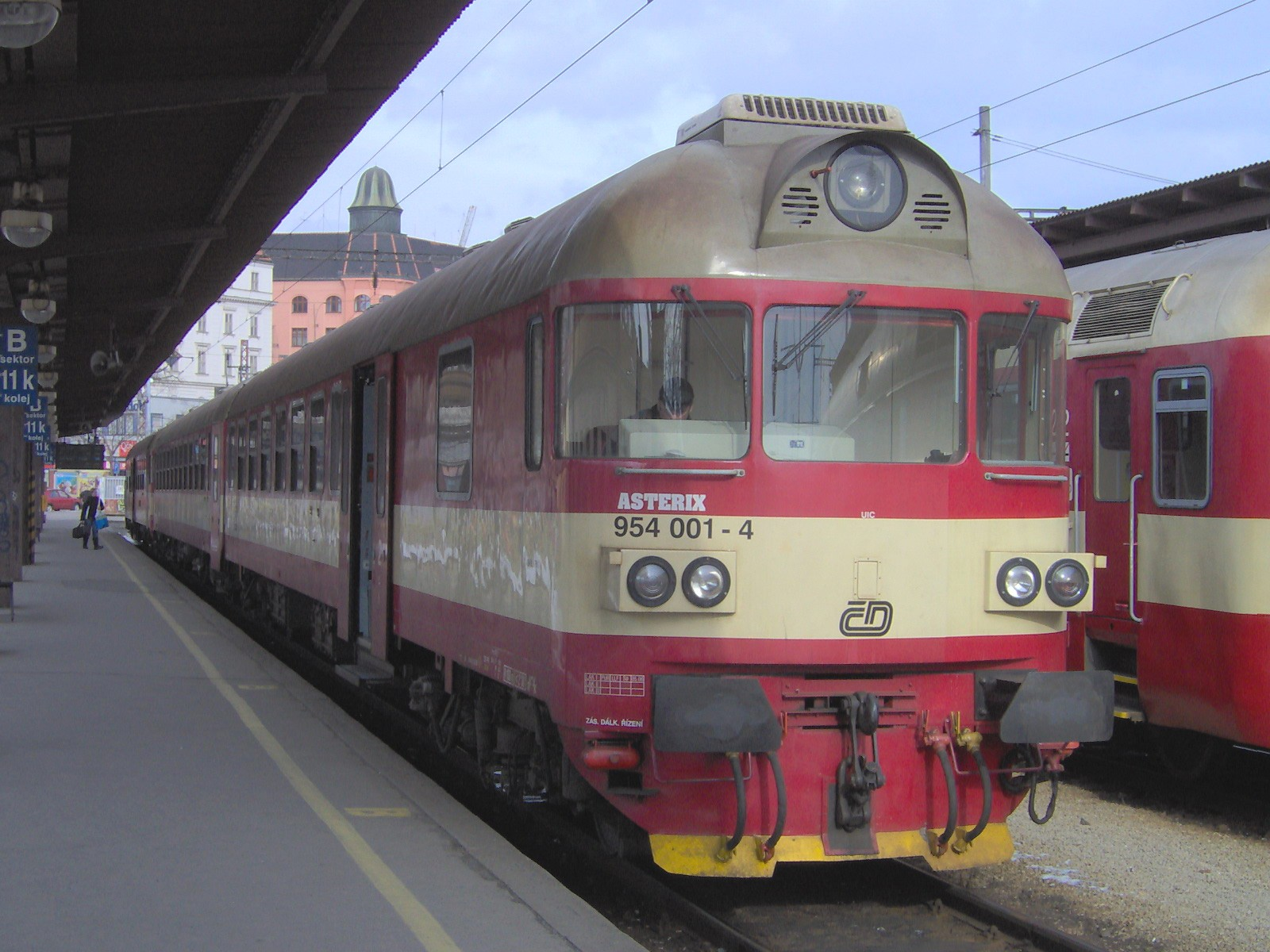 954.001 control car, Brno main station, Czech Republic